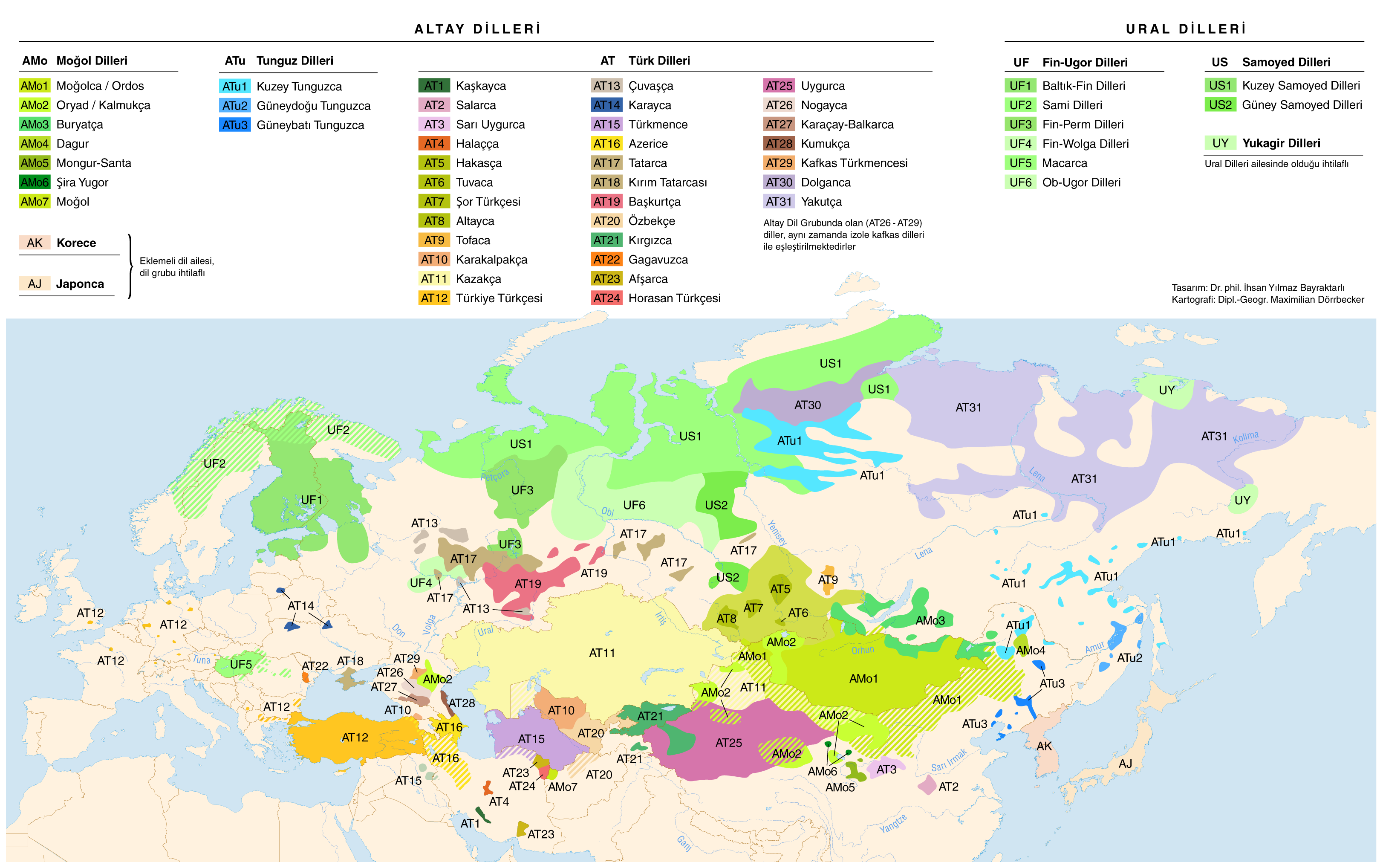 Linguistic map of the Altaic, Turkic and Uralic languages